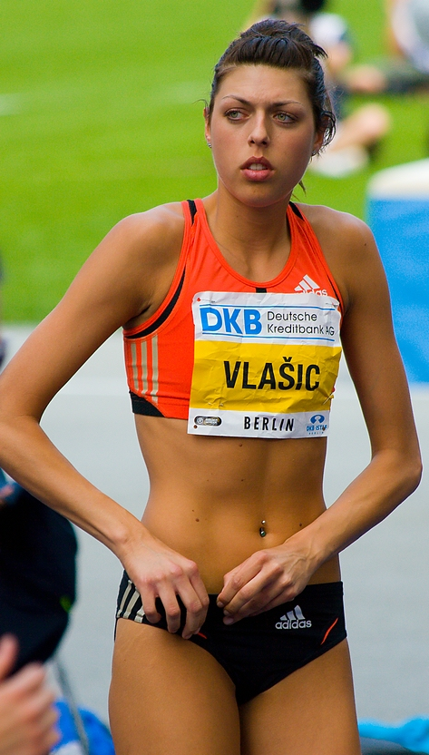 Croatian high jumper Blanka Vlašić at the 2008 Internationales Stadionfest